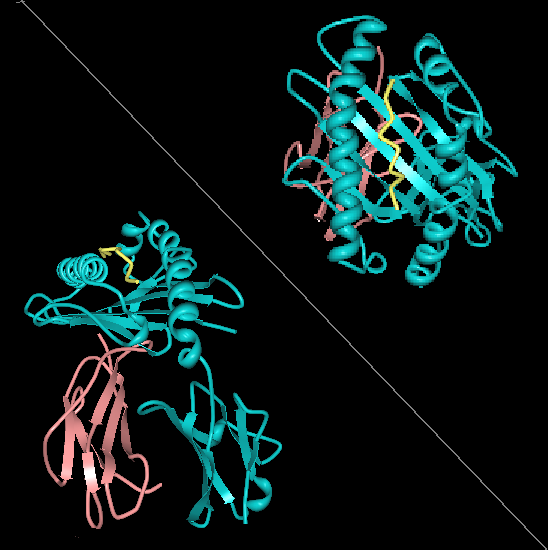 Rendering of PDB:1IM9, the HLA-Cw4 molecule with bound Peptide (KILLER CELL IMMUNOGLOBULIN-LIKE RECEPTOR 2DL1 Not shown for clarity reasons]. Beta-2 microglobulin (rose), HLA-A (alpha) *0401 (cyan) and peptide (yellow). This image is from: Crystal structure of the human natural killer cell inhibitory receptor KIR2DL1 bound to its MHC ligand HLA-Cw4 as part of the published work Fan, Q.R., Long, E.O., Wiley, D.C. (2001) Crystal structure of the human natural killer cell inhibitory receptor KIR2DL1-HLA-Cw4 complex. Nat.Immunol. 2: 452-460. The structure was rendered with PDB Protein workshop 1.5 and arranged with MS Paint.